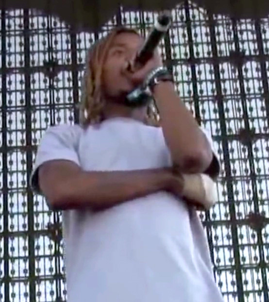 Fetty Wap performing at the Hard Summer Music Festival on August 2, 2015.